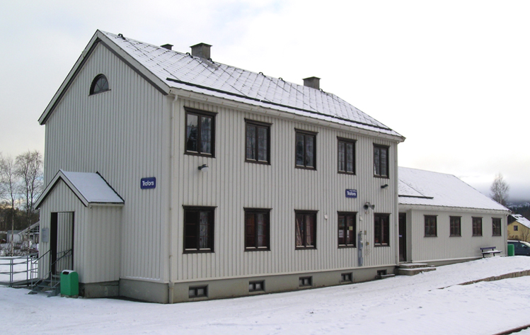 Trofors railway station, Nordlandsbanen.